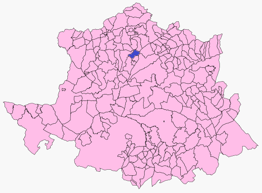 Valdeobispo